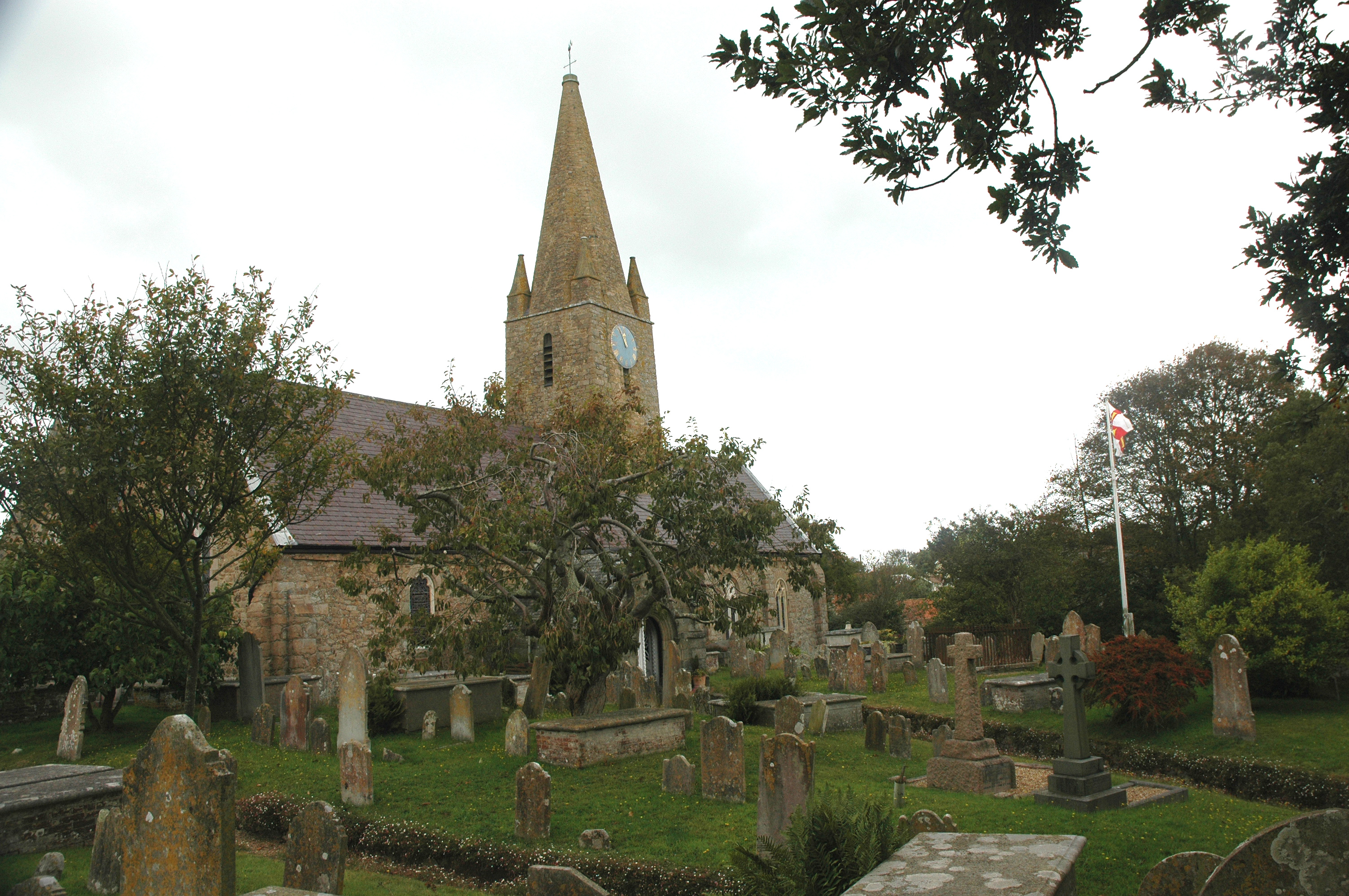 St. Martins Church and Cemetery